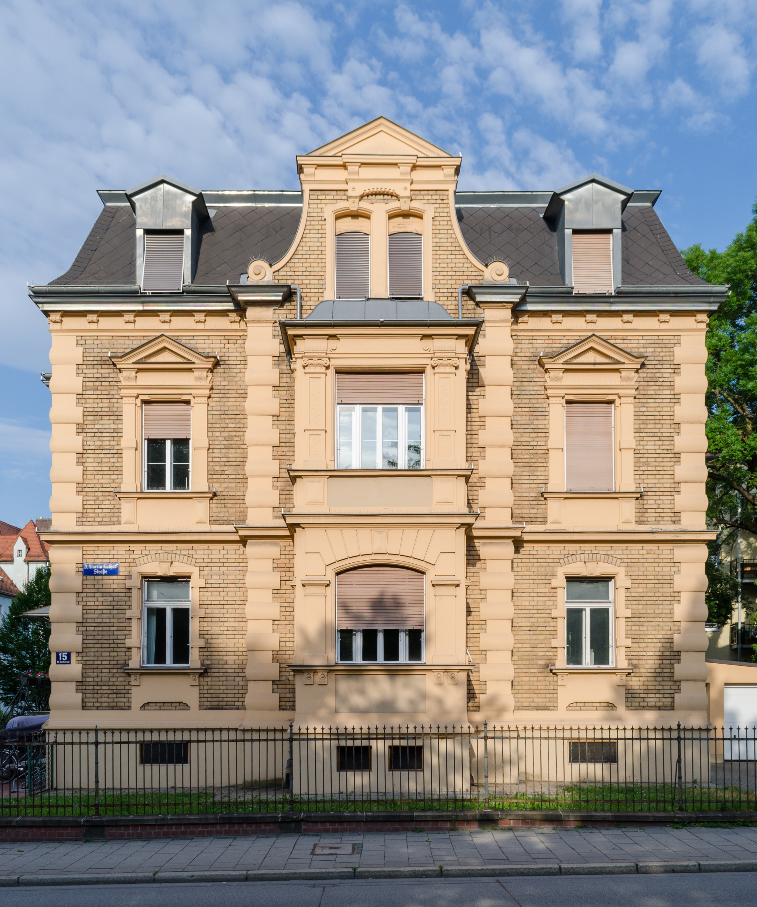 Regensburg (Bavaria, Germany) – inner city – villa (1895) – front